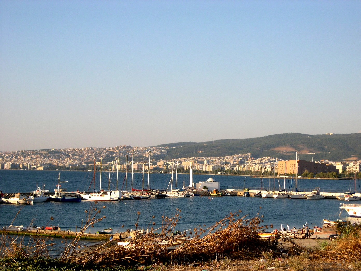 View of central Thessaloniki, Greece from Karabournaki, Kalamaria Municipality